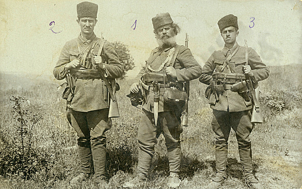 Fuat bey, Tane Nikolov and Hikmet bey - leaders of Internal Thracian Revolutionary Organization (1922)